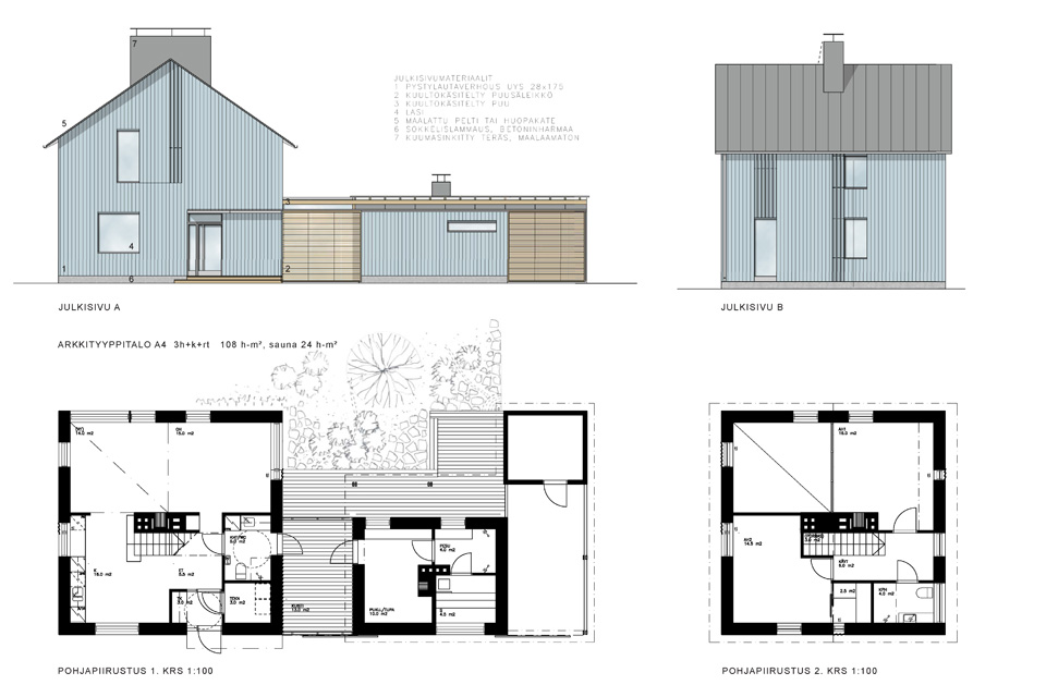 K3 Arkkityyppi, standardized low-energy one-family house design published by Finnish Cultural Foundation. Architect Kirsti Siven & Asko Takala arkkitehdit Oy.